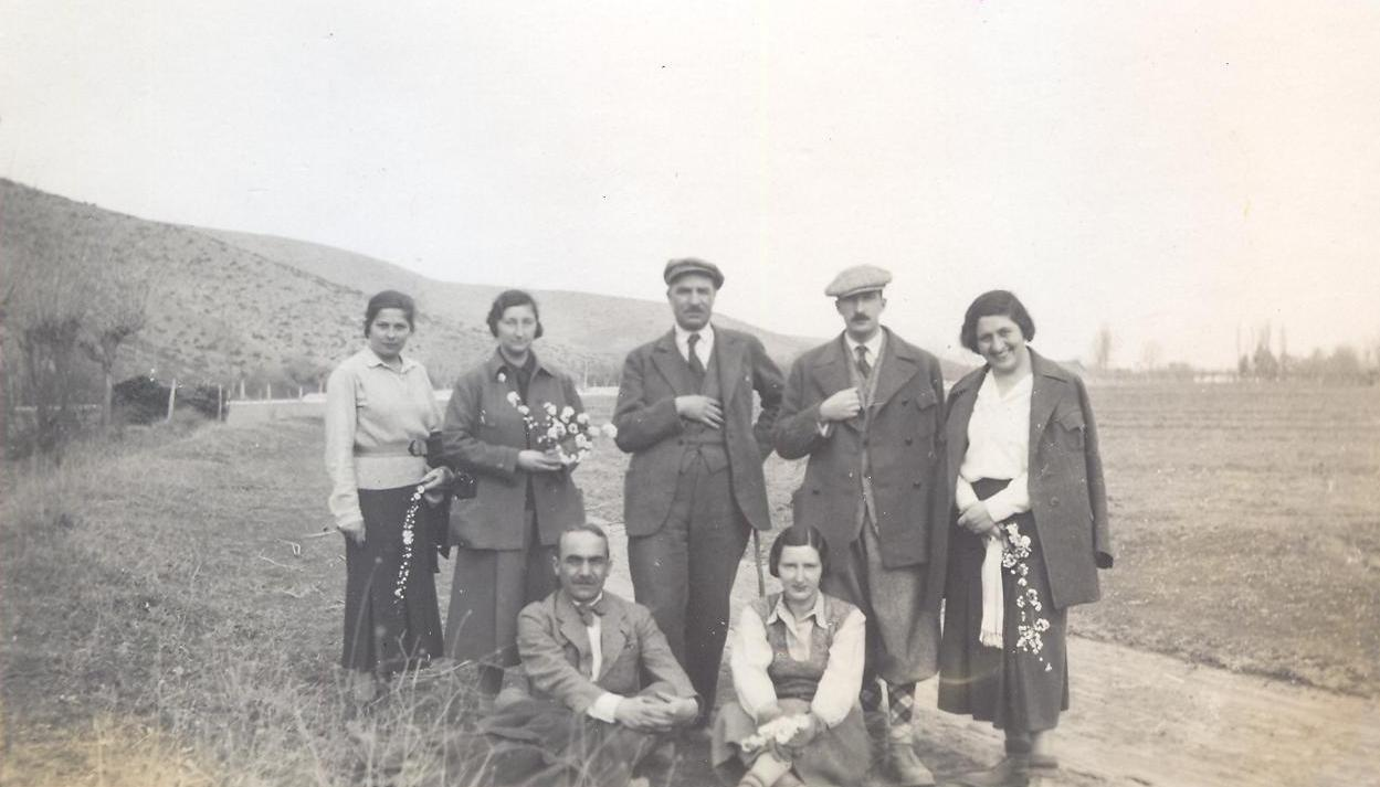 Bulgarian royal family on picnic.